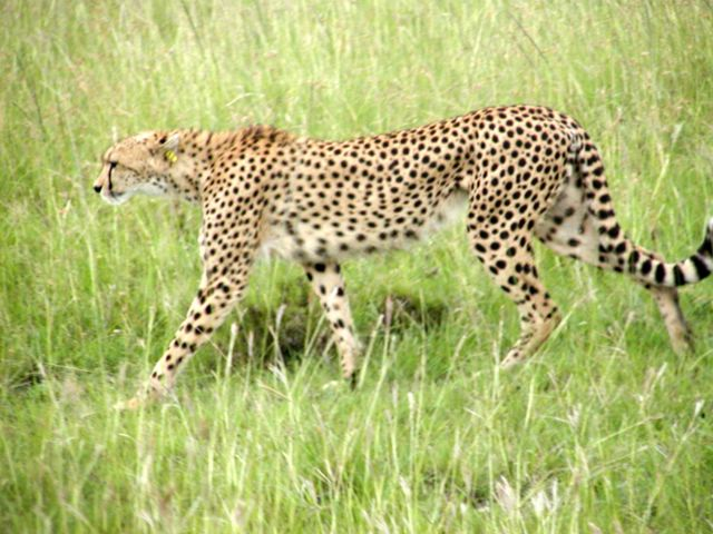 Cheetah in Kenya